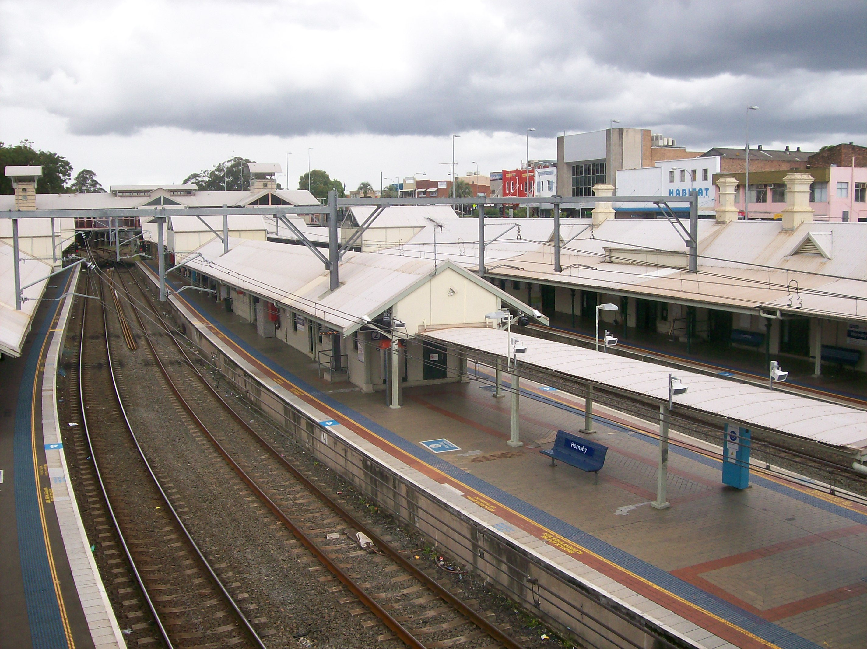 Hornsby railway station platform 1 & 2 from footbridge